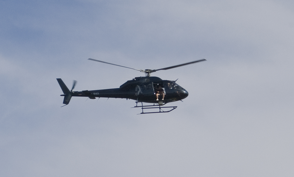 ABC (VH-NTV), Eurocopter AS355 F2, over the Murrumbidgee River in Wagga Wagga during the December 2010 floods. On 18 August 2011, the helicopter crashed (cause is under investigation) near Lake Eyre, killing Gary Ticehurst (pilot), John Bean (cameraman) and Paul Lockyer (journalist).